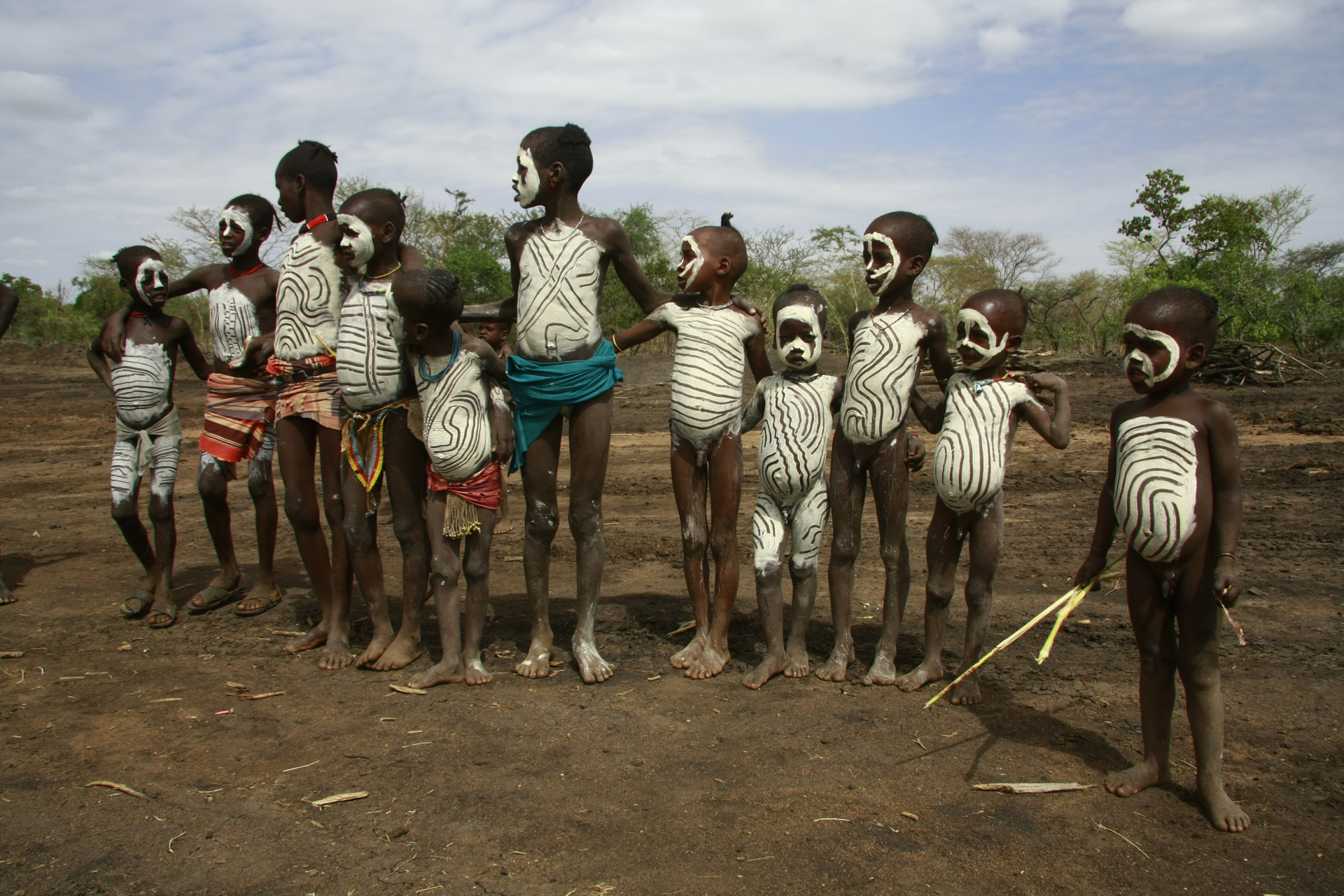 Shots depicting the Lower Valley of the Omo River, UNESCO World Heritage Site, and inhabitants of Southern Ethiopia.